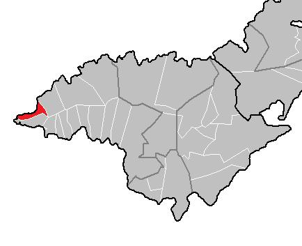 Locator map of Poloa village